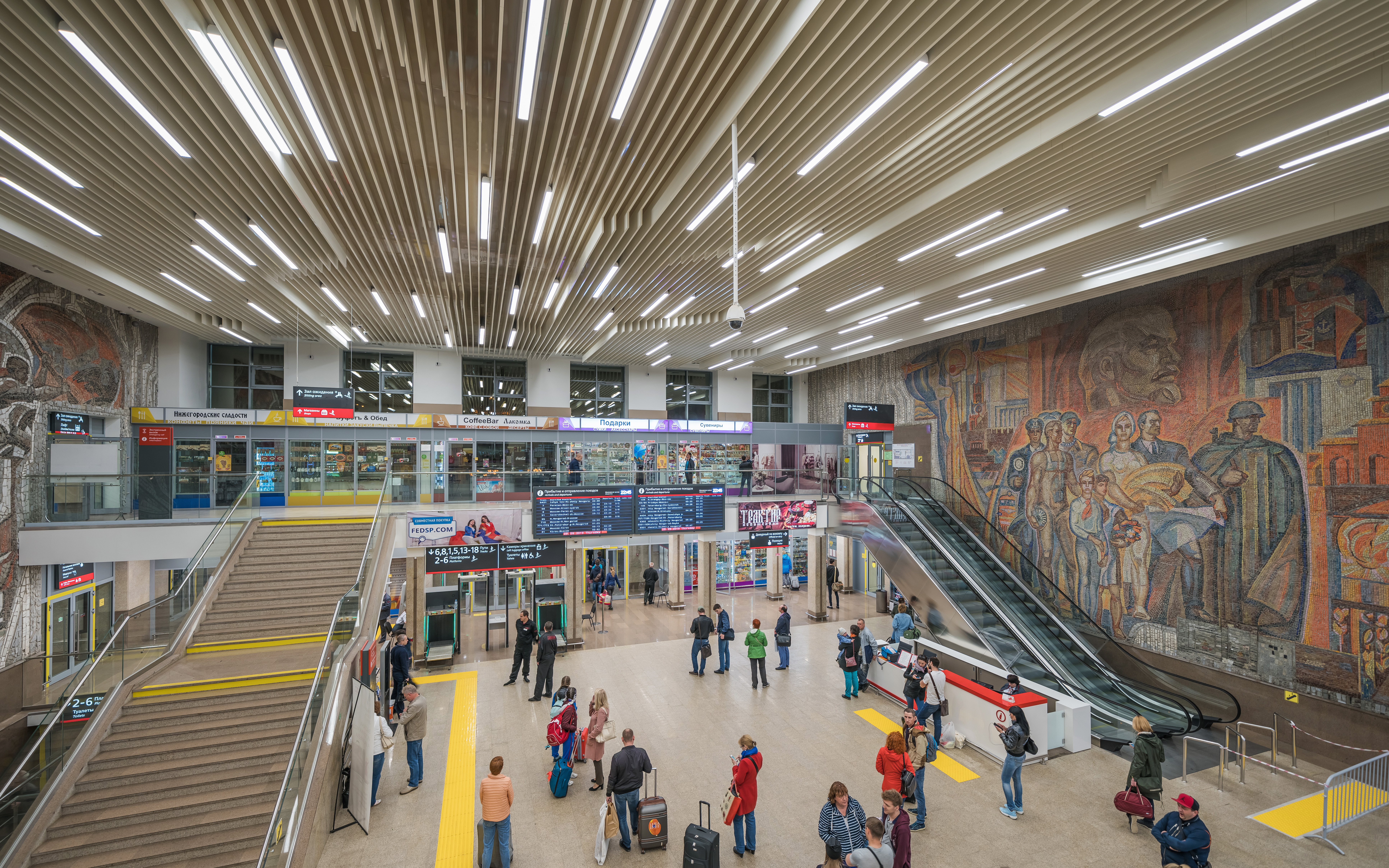 Interior of Moskovsky railway station in Nizhny Novgorod, Russia